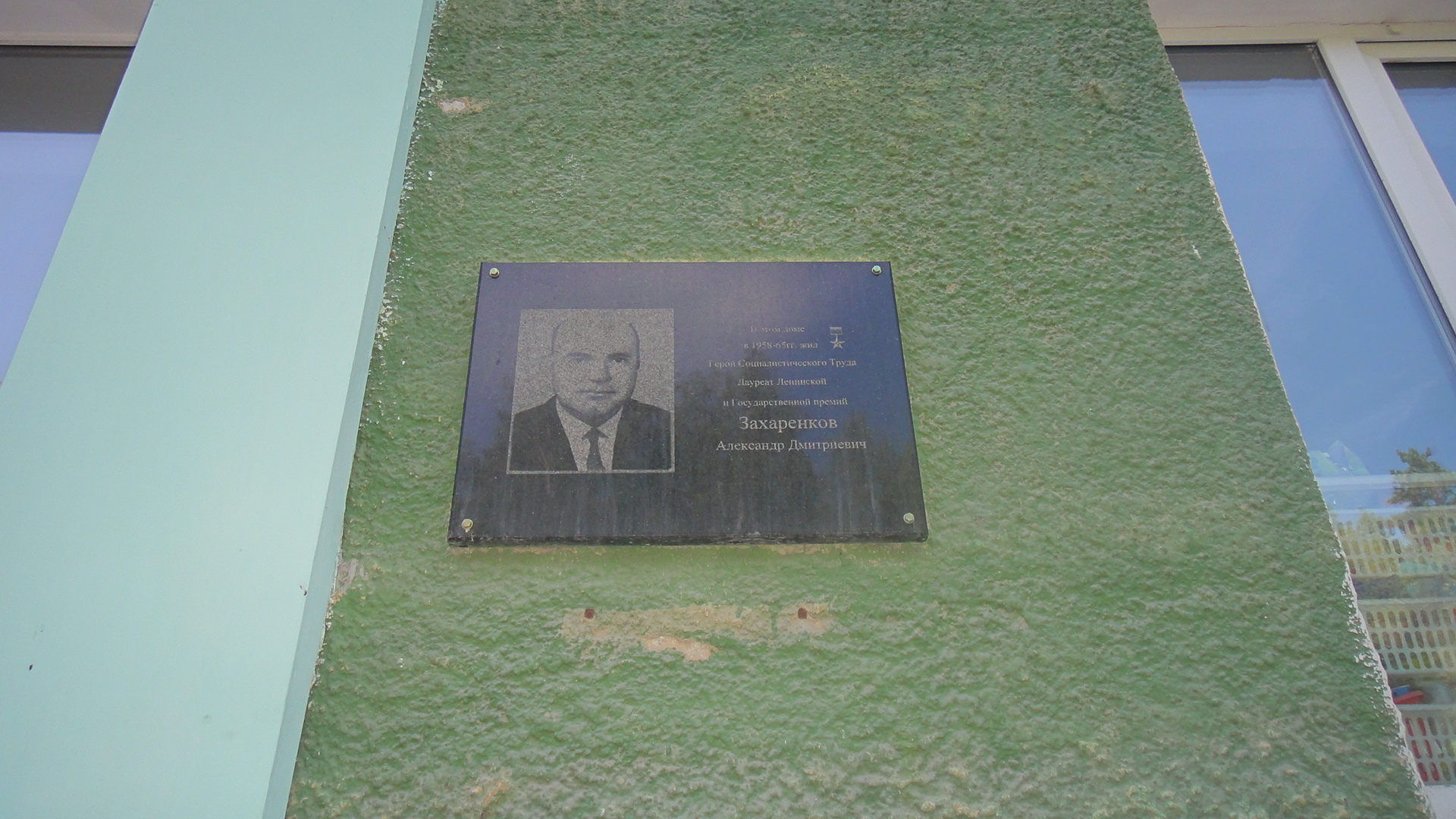 Мемориальная доска Захаренкову